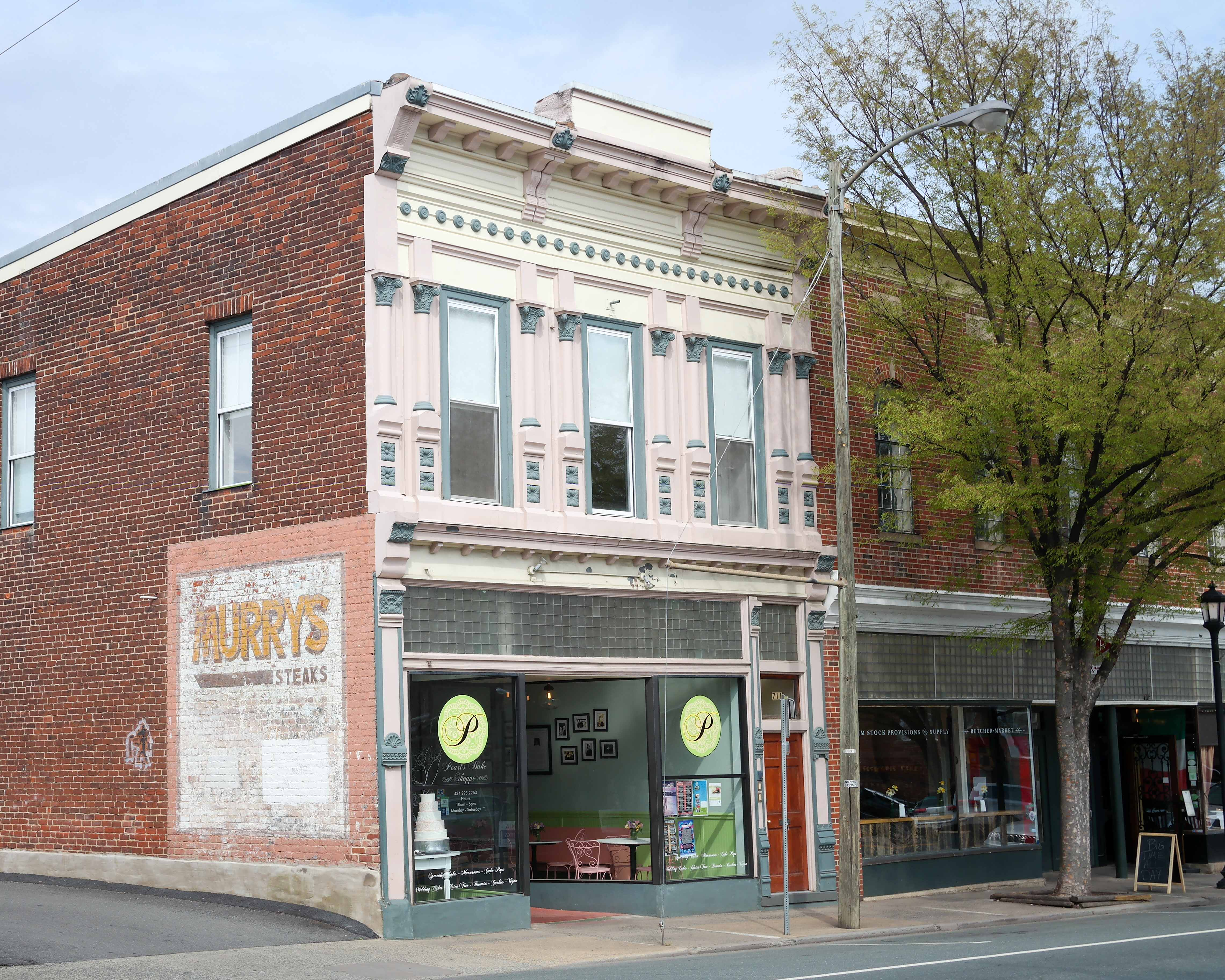 A ghost sign in Charlottesville, Virginia